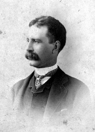 Andrew Onderdonk, 1880, Yale, British Columbia.